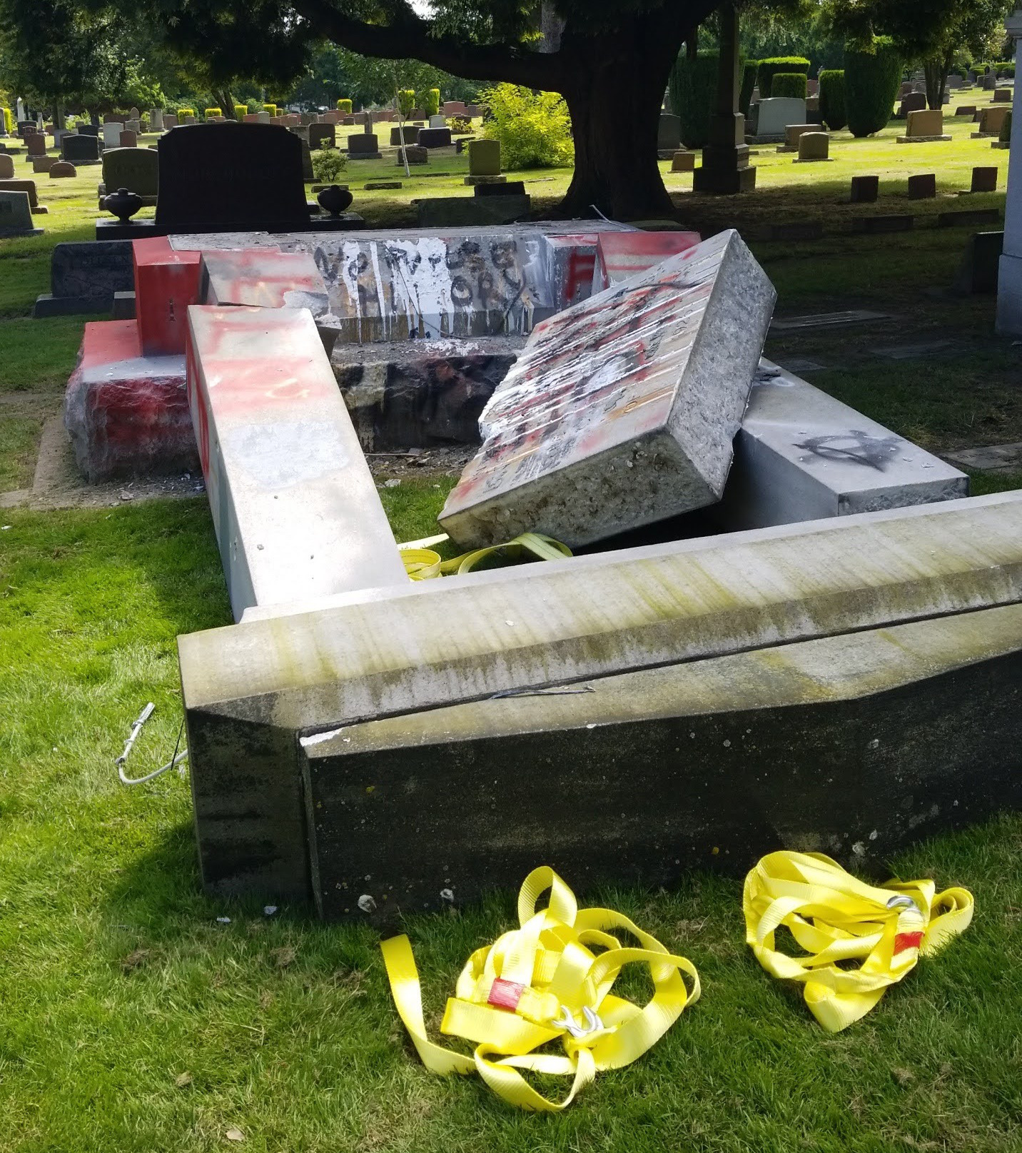 The United Confederate Veterans Memorial shown toppled on July 4th, 2020